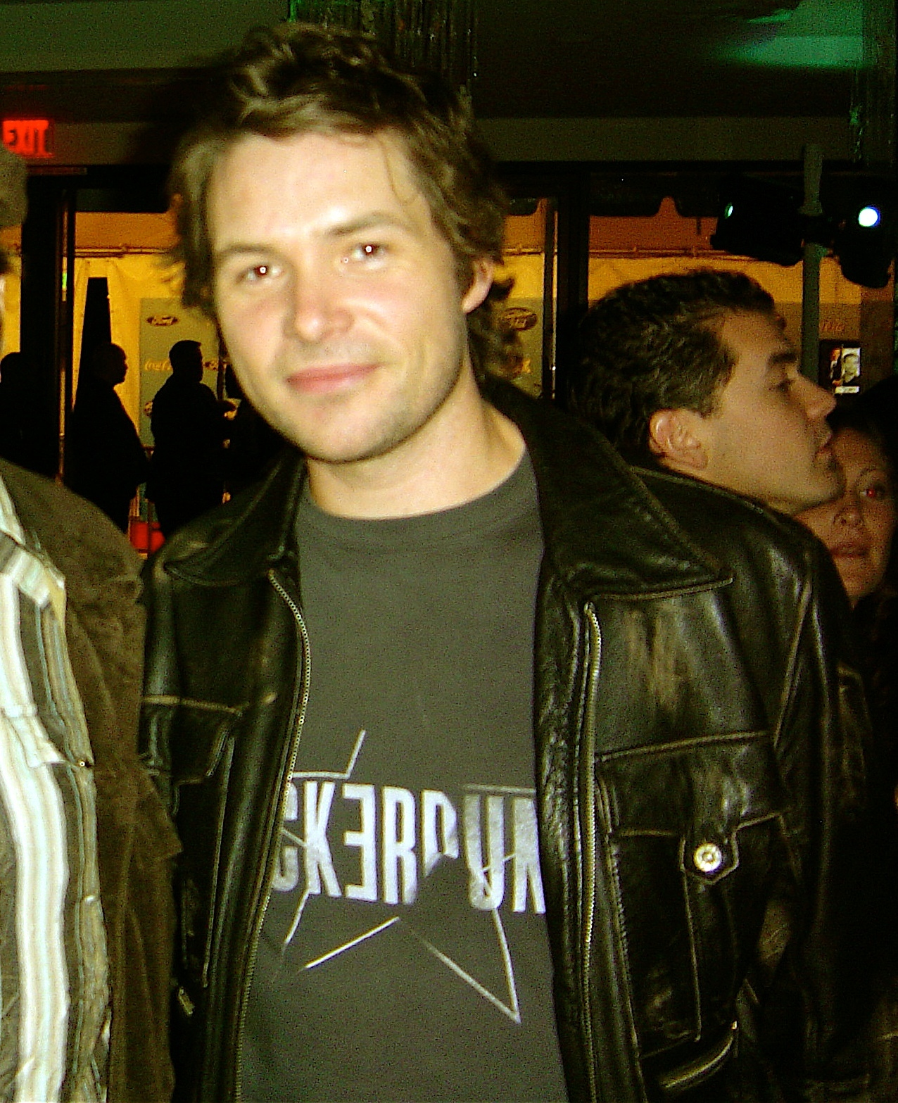 Michael Johns at the American Idol, Season 7, Top 12 after party